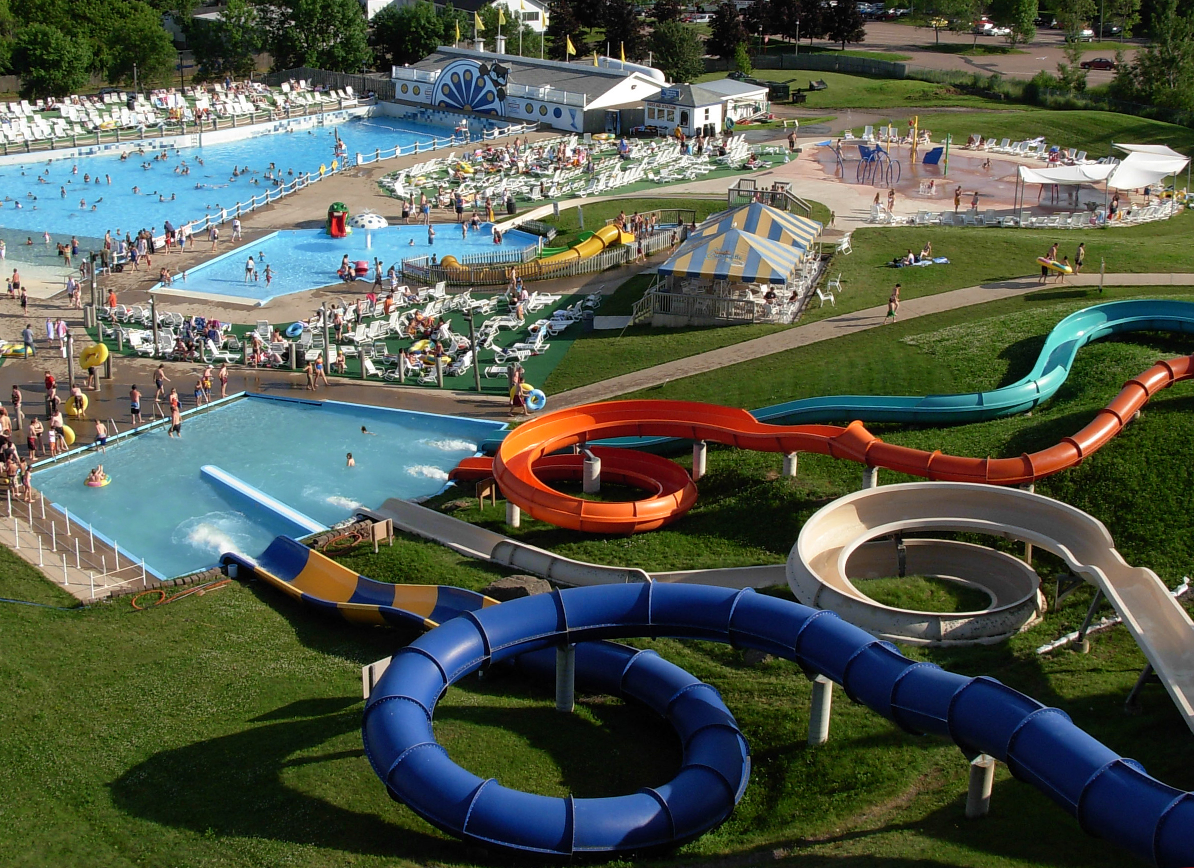 An image of Magic Mountain Water Park in Moncton.